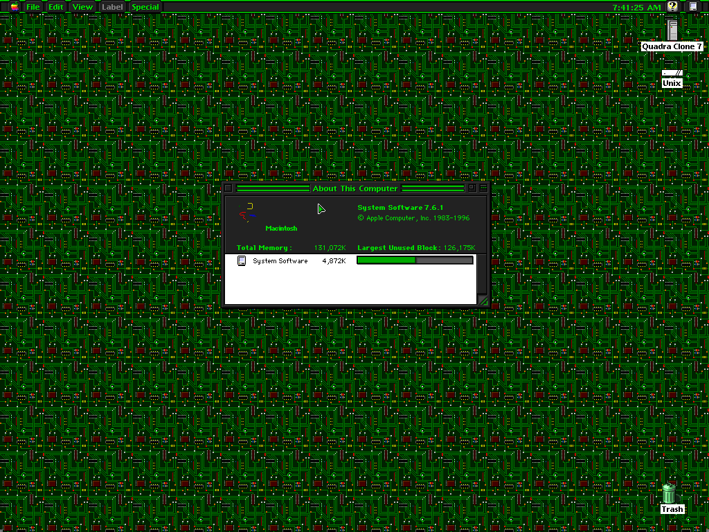 Kaleidoscope Mac OS 7